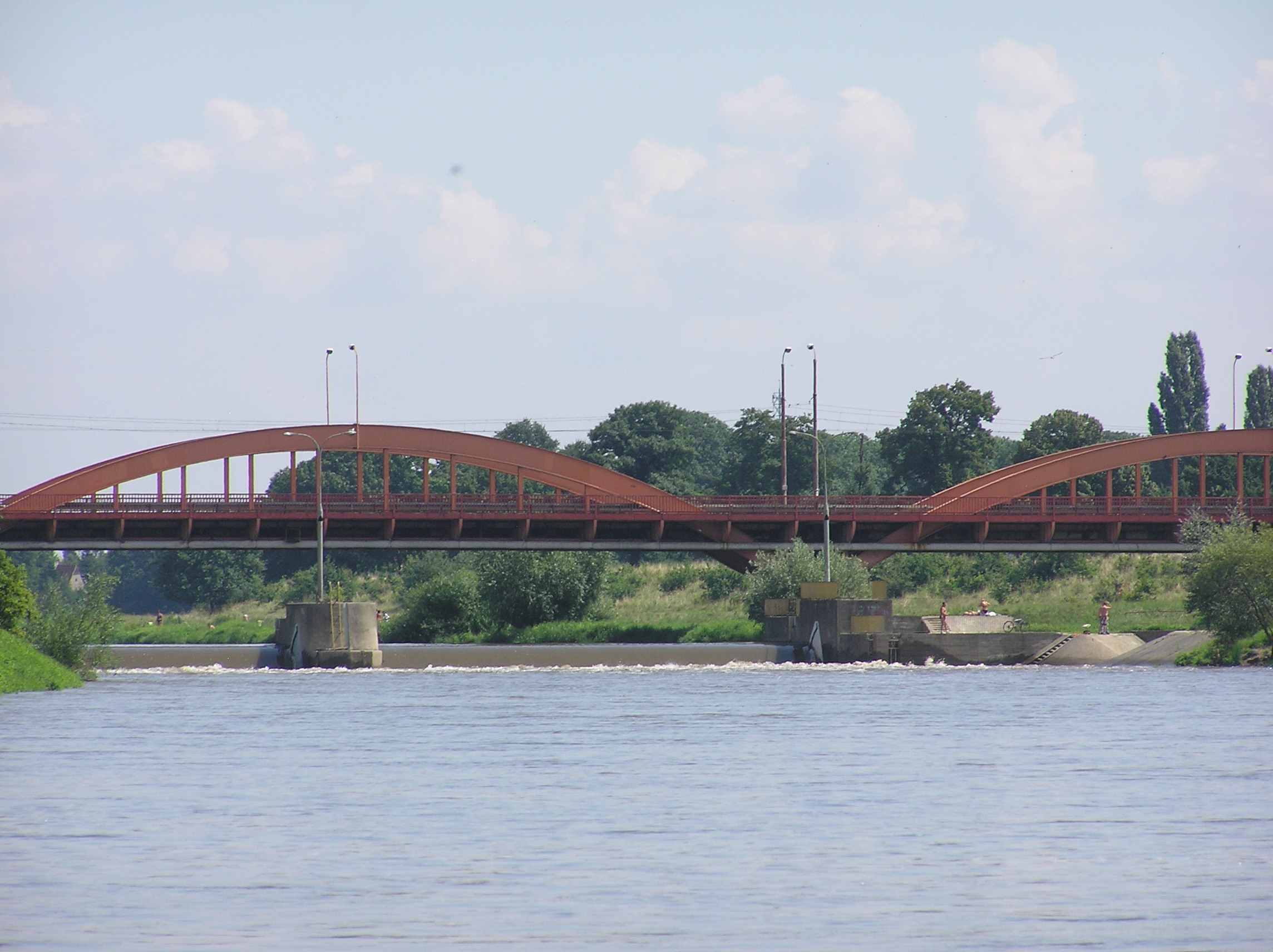 Wrocław, Oder River, Stara Odra, Różanka weir, Trzebnicki Bridge